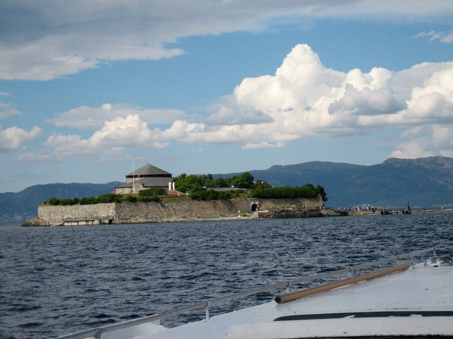 Island Munkholmen near Trondheim in Norway.